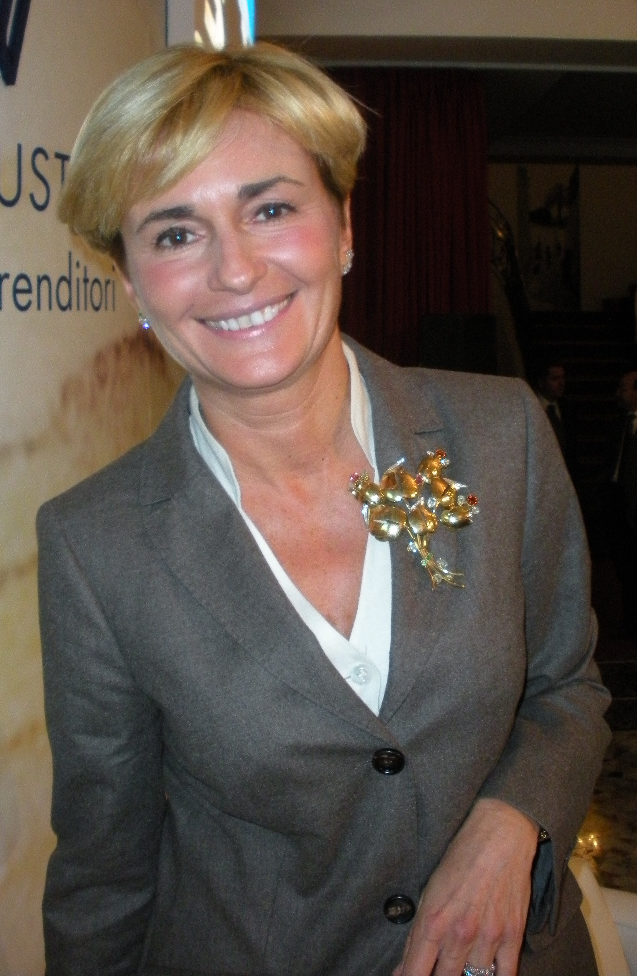 Federica Guidi, italian businesswoman.